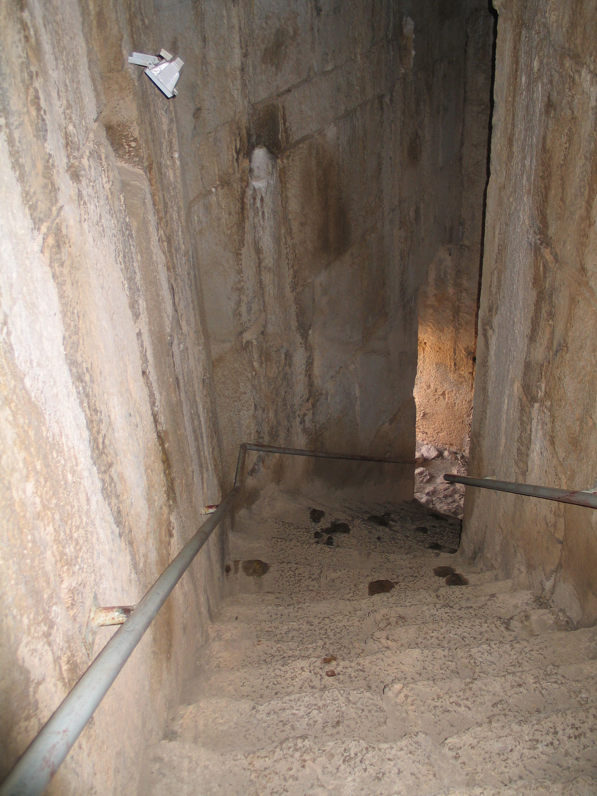 Nimrod fortress, the northwestern tower postern.